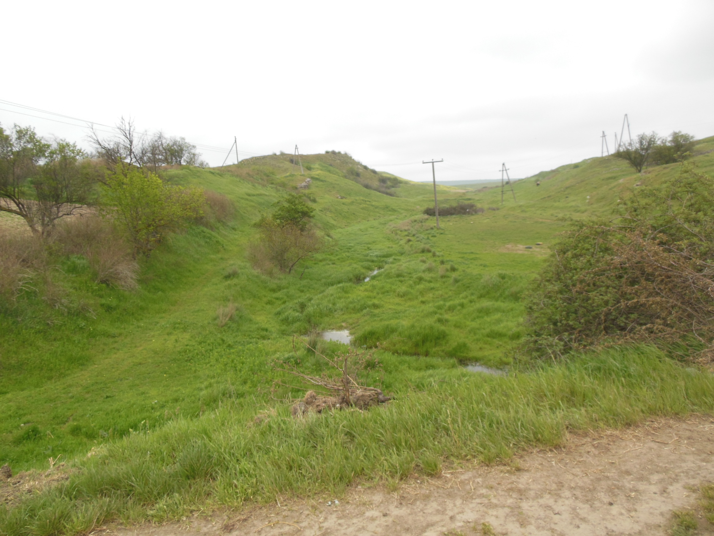 River Buganak (Kerch Peninsula) in the village Bondarenkovo.